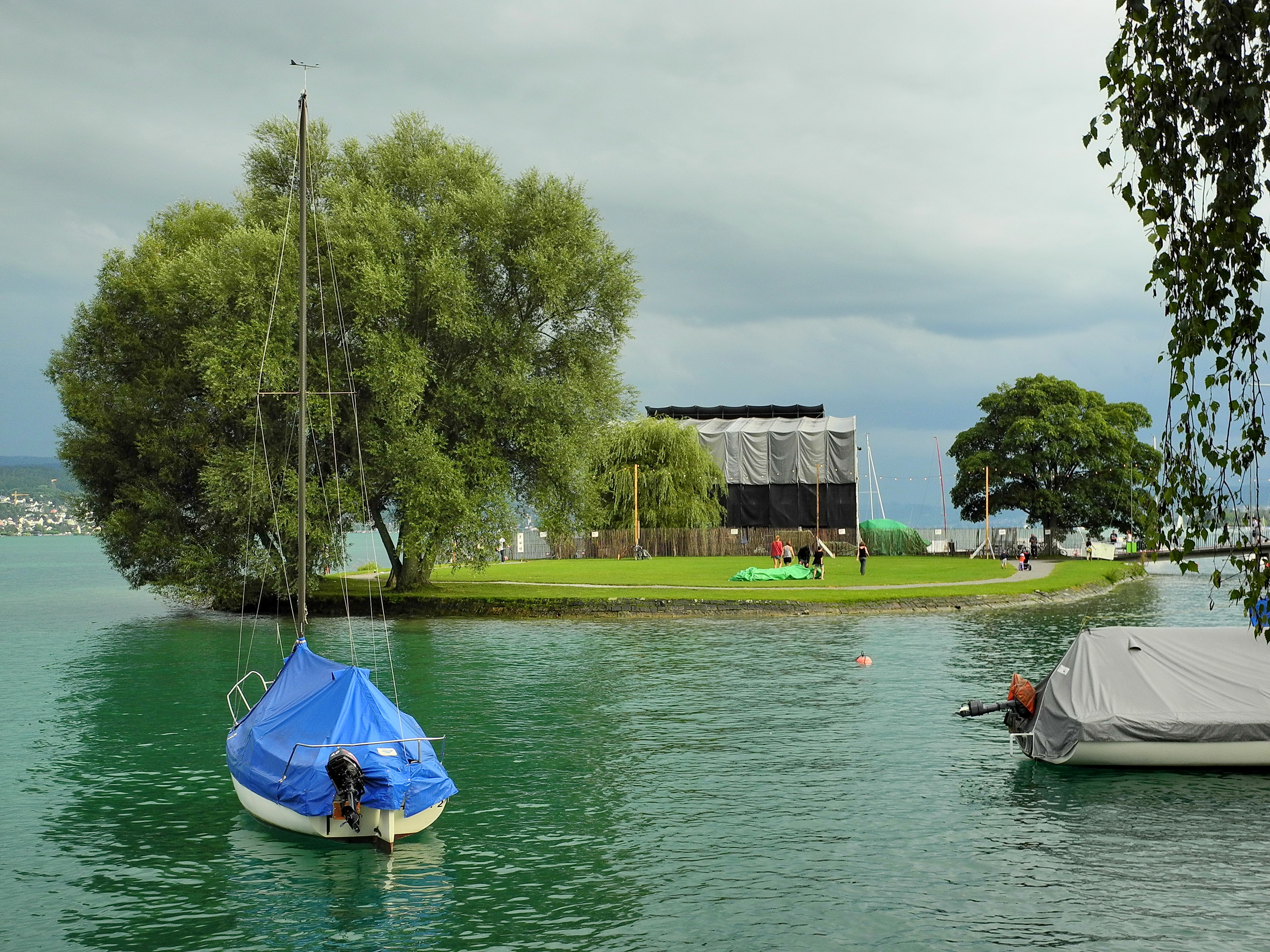 Saffa island on Zürichsee as seen from the Theaterspektakel in Zürich-Wollishofen (Switzerland)